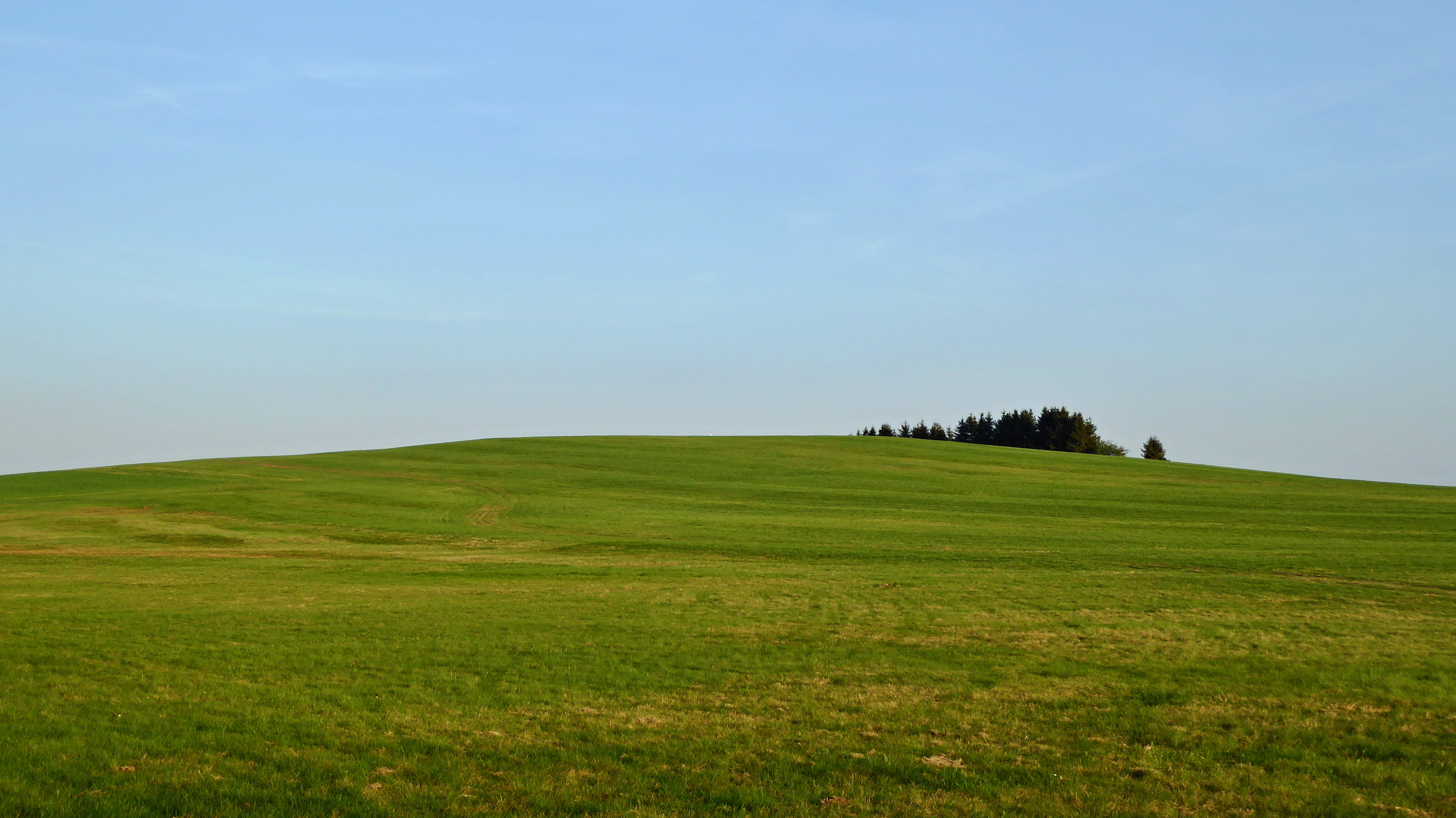 Spring meadows under the peak of the hill with name "At hanged" (in the Czech version "U oběšeného), view from northwest (distance to the peak about 420 m). The geographic official name of hill and peak with an altitude of 737.4 m is in written form: At hanged (the standardized name in the czech version: U oběšeného). Czech Geodetic and Cadastral Office presents a trigonometric point at an altitude of 737.38 m on the cadastral territory of Svratouch. Within the regional divide of the Czech Georelief it is the highest peak in the geomorphological whole of Železné hory. It lies on the southeast edge of the mountain range, on the eastern slope of the hill is located the border with the "Hornosvratecká" highlands (geomorphological whole). The boundaries of geomorphological units lead from the top of the saddle (708 m above sea level) roughly to the south of the valley of the river Svratka. Summary from the Czech description. Photo-location: Czechia, Pardubice Region, the village of "Svratouch", meadows under the peak (azimuth 133 °).